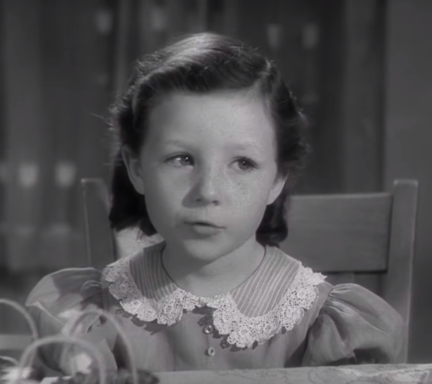 American child actress Eva Lee Kuney in "Penny Serenade", 1941 film. A drama film about a couple who are divorcing, the wife reminisces on the relationship through records they had acquired throughout the years. This film is in the public domain. Starring Irene Dunne, Cary Grant (in his first of two Academy Award-nominated roles), and Beulah Bondi Story by Martha Cheavens Screenplay by Morrie Rhyskind Directed and Produced by George Stevens